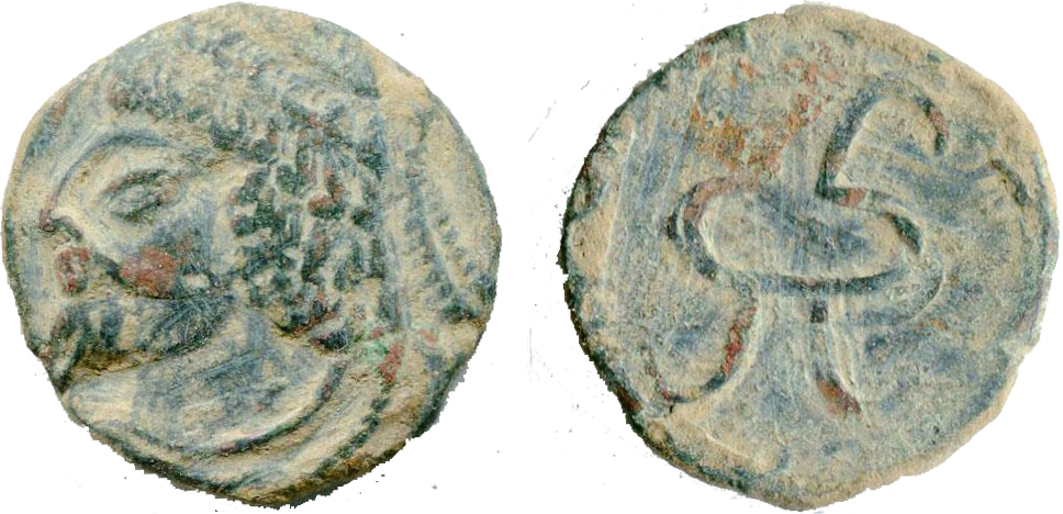 Kangju coin of Vanvan of Chach